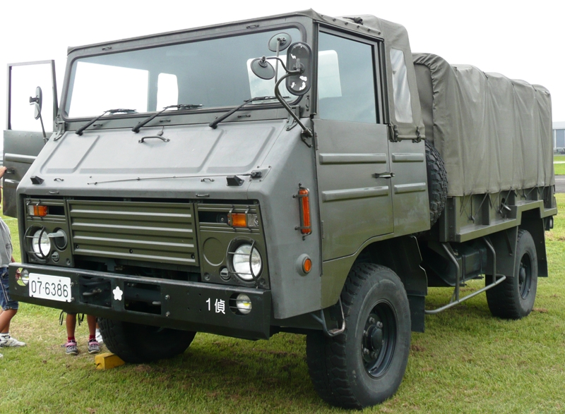 Type 73 chugata truck.